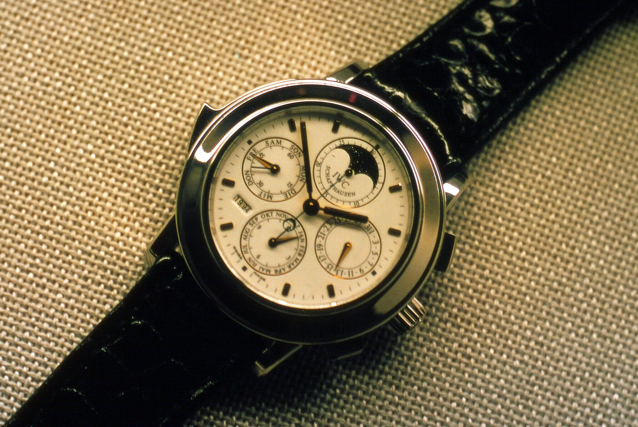 Musée International d'Horlogerie, La Chaux-De-Fonds, Switzerland.